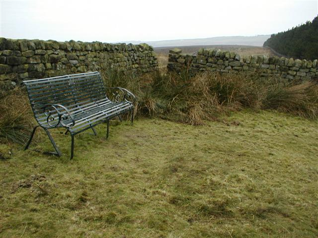 Robert Aske Memorial Seat. Robert Aske was a Yorkshireman who became a London lawyer. In 1535 when Henry VIII began to dissolve the monasteries there were many people living in the north of England who were still Catholics and complained about the way the monks were being treated. Robert Aske took up their cause and formed an army to defend the monasteries. In what became known as the Pilgrimage of Grace, Aske along with 300,000 followers marched to York in protest. The Duke of Norfolk for the King negotiated a peace with Aske on condition of an audience with the King and the rebellion dispersed. So Aske travelled to London where he received various promises from the King. On Aske's return north fighting again broke out so Henry had the leaders of the rebellion arrested and in 1537 about 200 including Aske were executed.